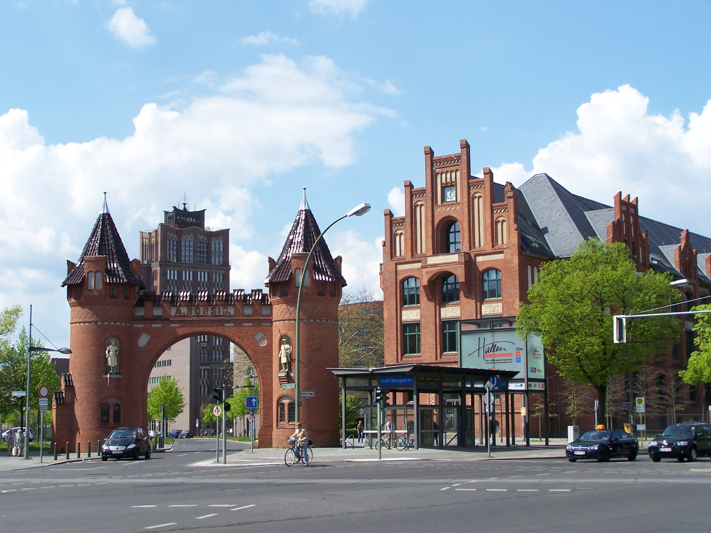 entrance to the Berlin underground station Borsigwerke, line u6